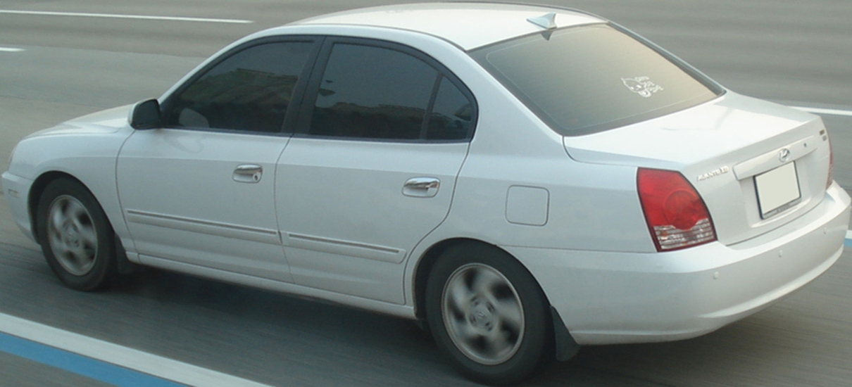 Hyundai New Avante XD